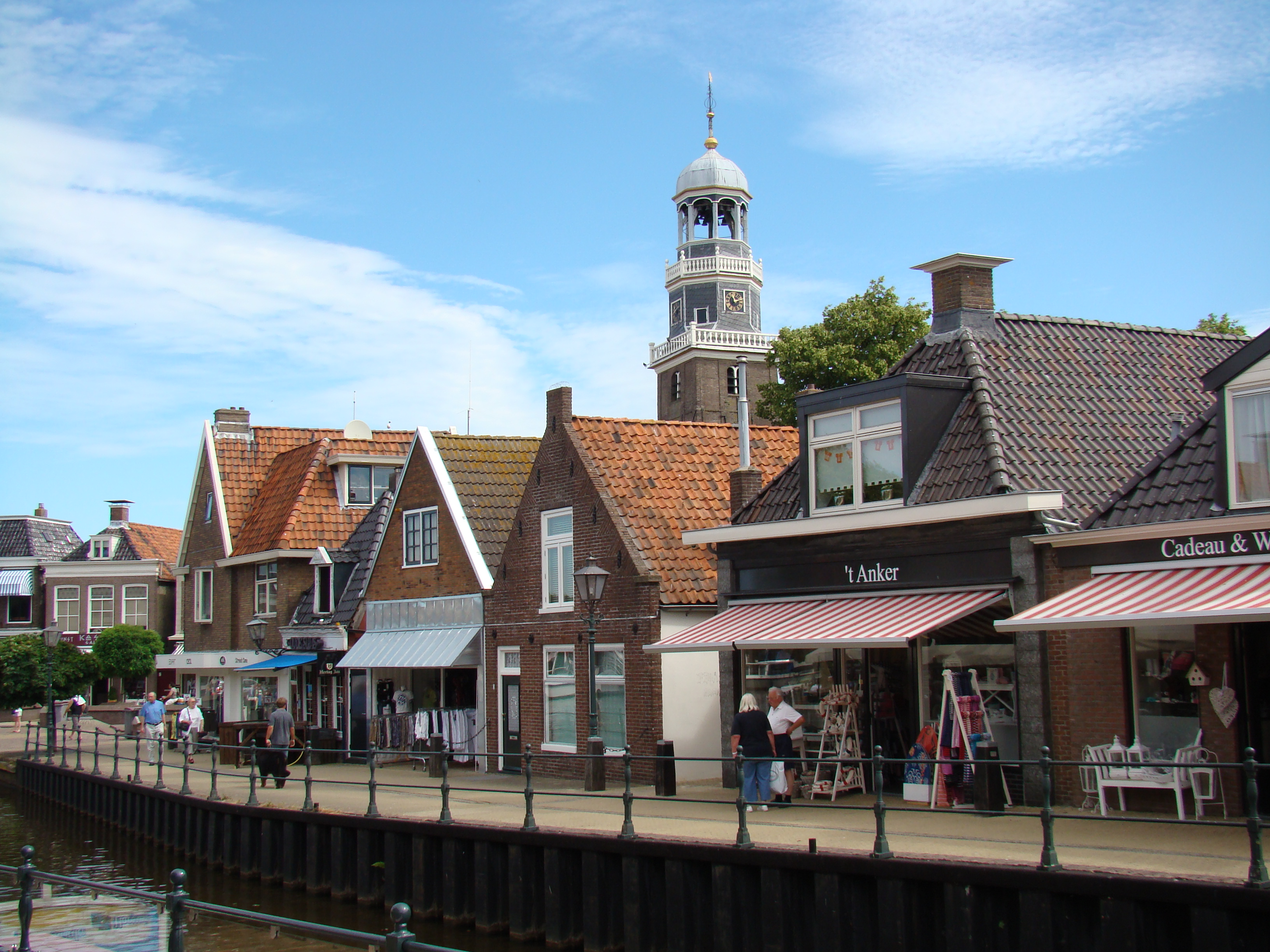 Impressions of Lemmer, Netherlands